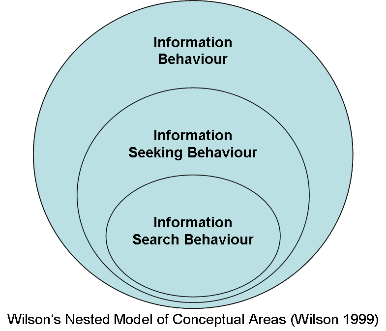 Wilson's Nested Model of Conceputal Areas (1999)